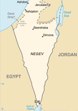 Eilat on the map of Israel